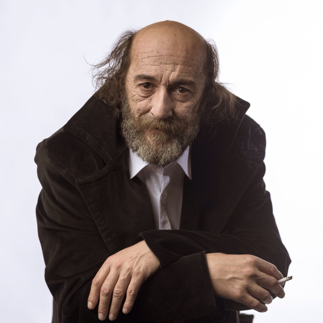 Mirko Vlahović u predstavi Zimska Bajka CNP-a